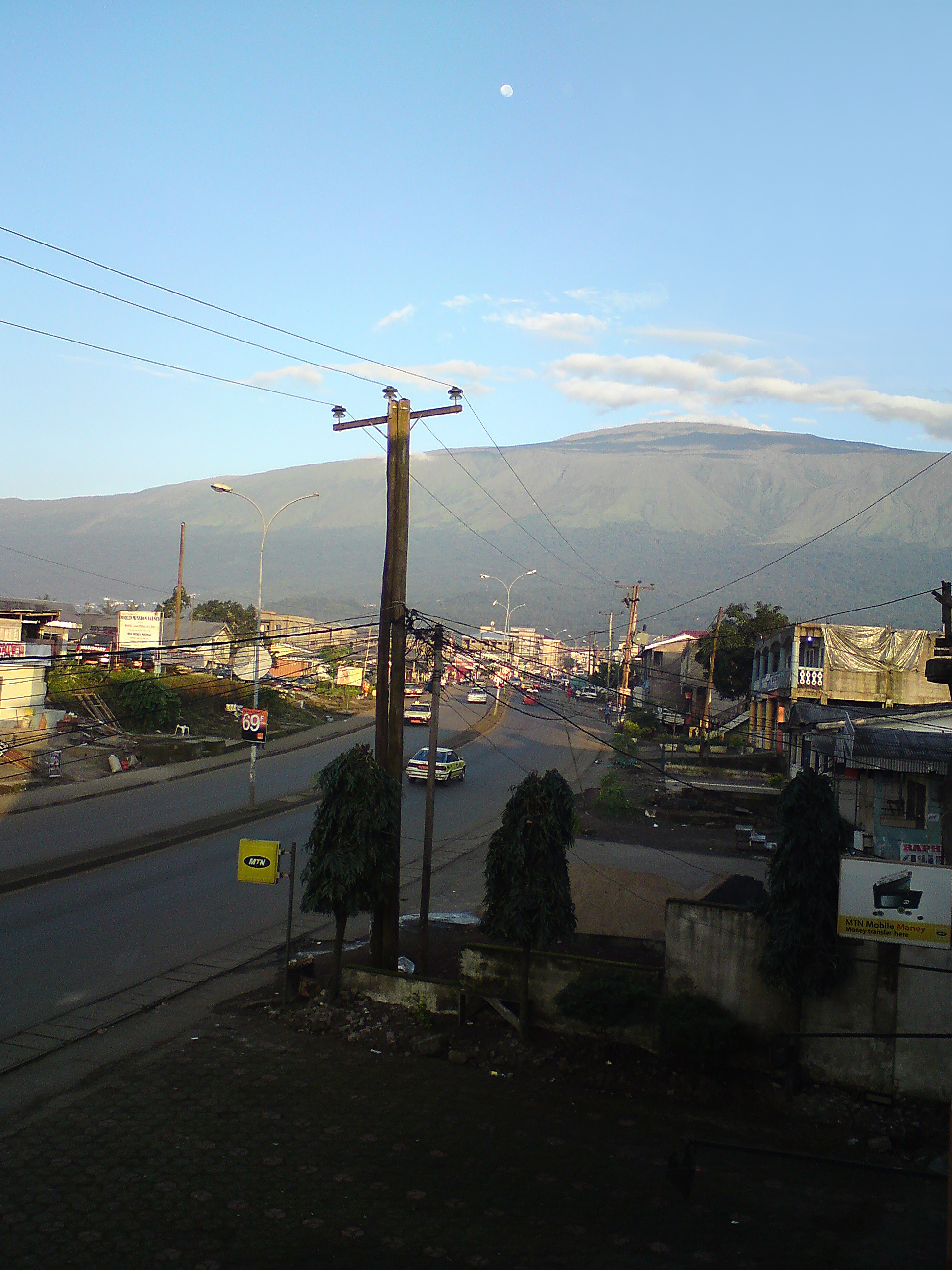 Mount Cameroon (Fako) as seen from Buea (Molyko quarter)